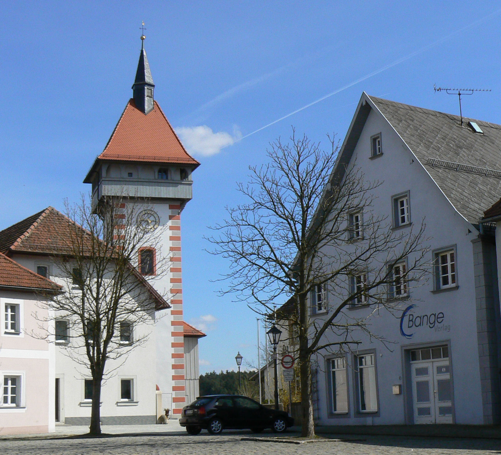 view of Hollfeld, Germany